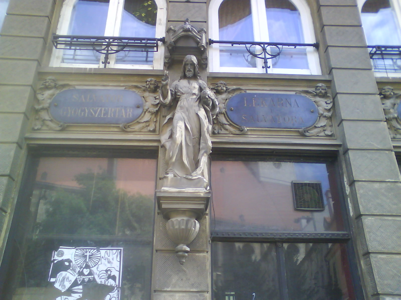 Statue of Christ The Saviour by sculptor Alojz Rigele from the year 1904 on the facade of the Pharmacy Salvator at Panská Street No. 35, Old Town, Bratislava, Slovakia.